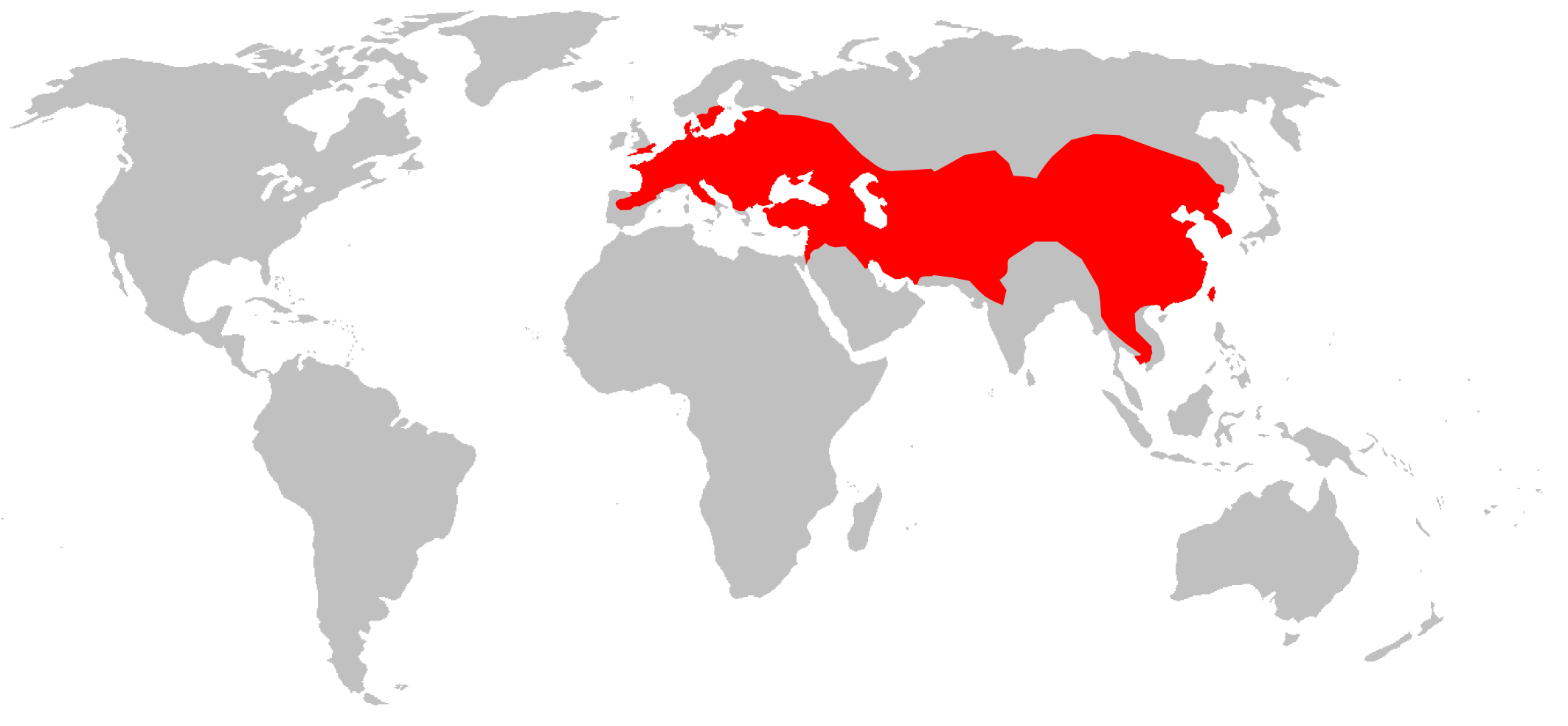 Eptesicus serotinus range map.